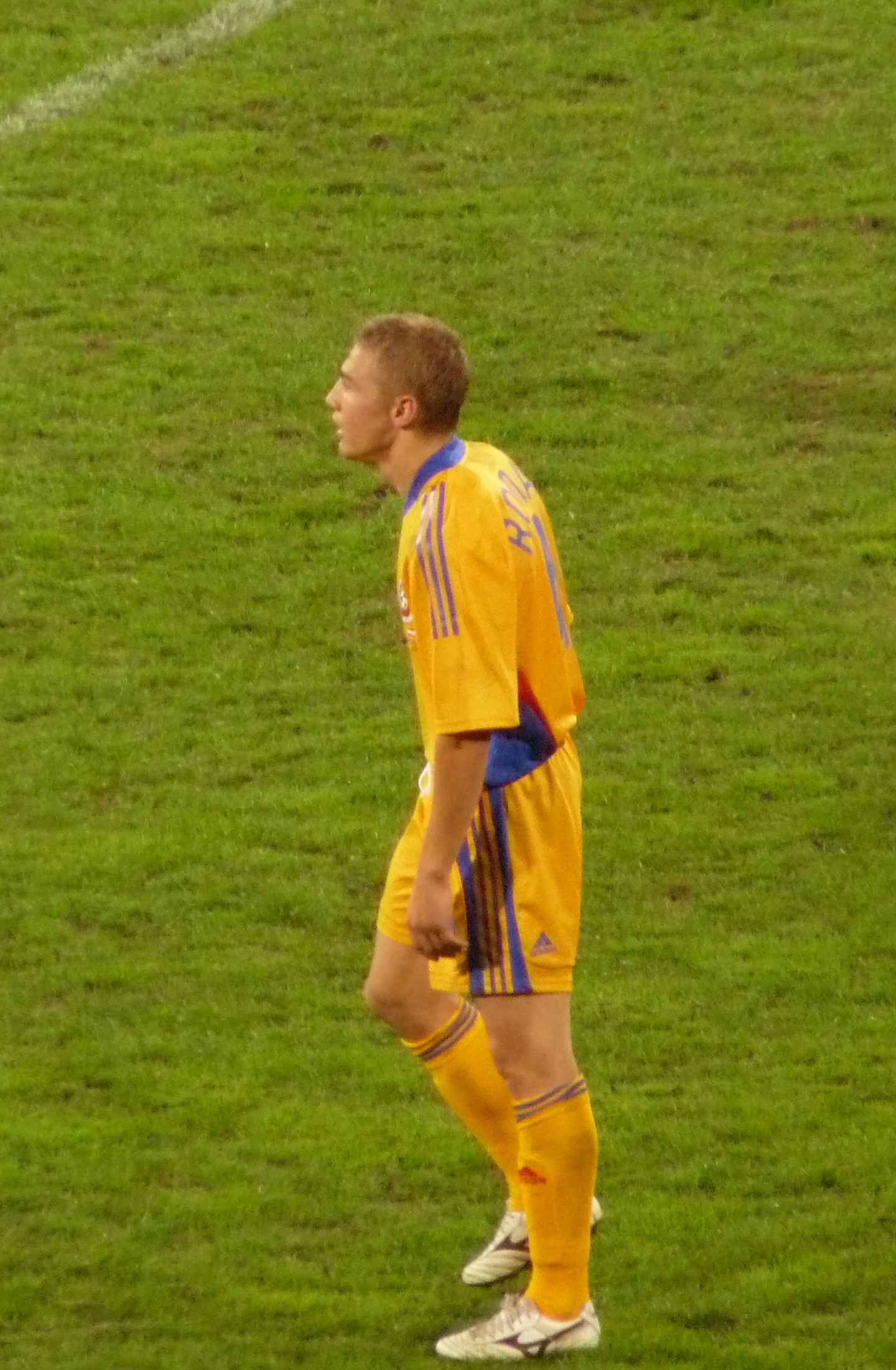 Mihai Roman playing for the national football team of Romania against Austria on the Steaua stadium in Bucharest